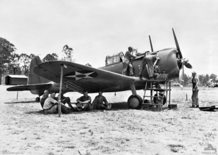 Assembling a United States Army Air Force Douglas A-24 Banshee dive bomber aircraft (s/n 41-15802) of the 27th Bombardment Group (light), at Archerfield, Qeensland (Australia), in January 1942. A total of 52 of these aircraft were assembled in Queensland. 41-15802 crash-landed at Redbank near Ipswich (Australia) in January 1942. On 25 March the surviving 27th Bomb Group personnel consisting of 42 officers, 62 enlisted men, and 24 A-24s were assigned to the 3rd Bombardment Group at Charters Towers airfield in Queensland. 41-15902 was salvaged but finally written off on 7 November 1942.